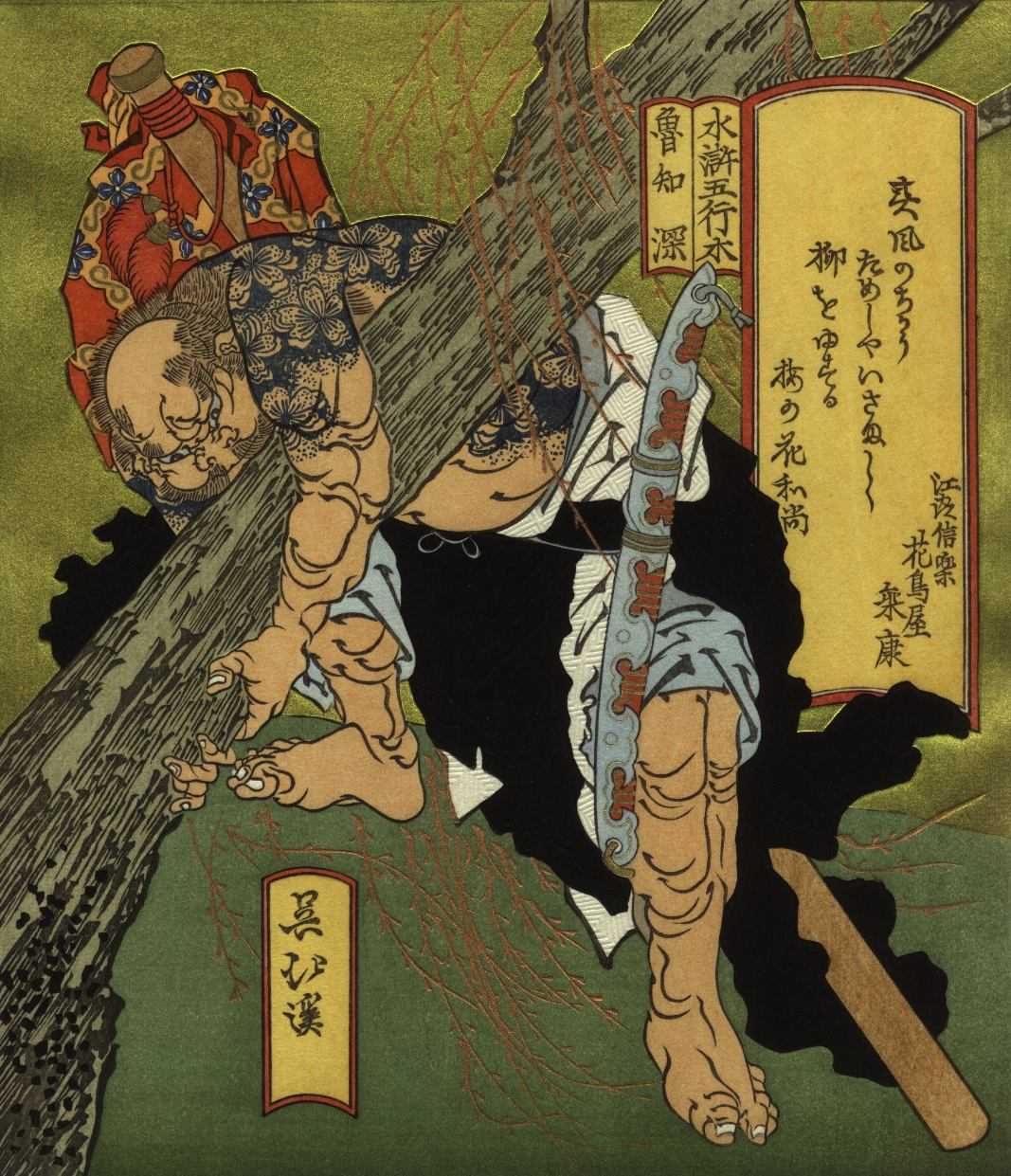 Japanese woodblock representation of Lu Zhishen; it shows the story of him pulling out a Willow Tree